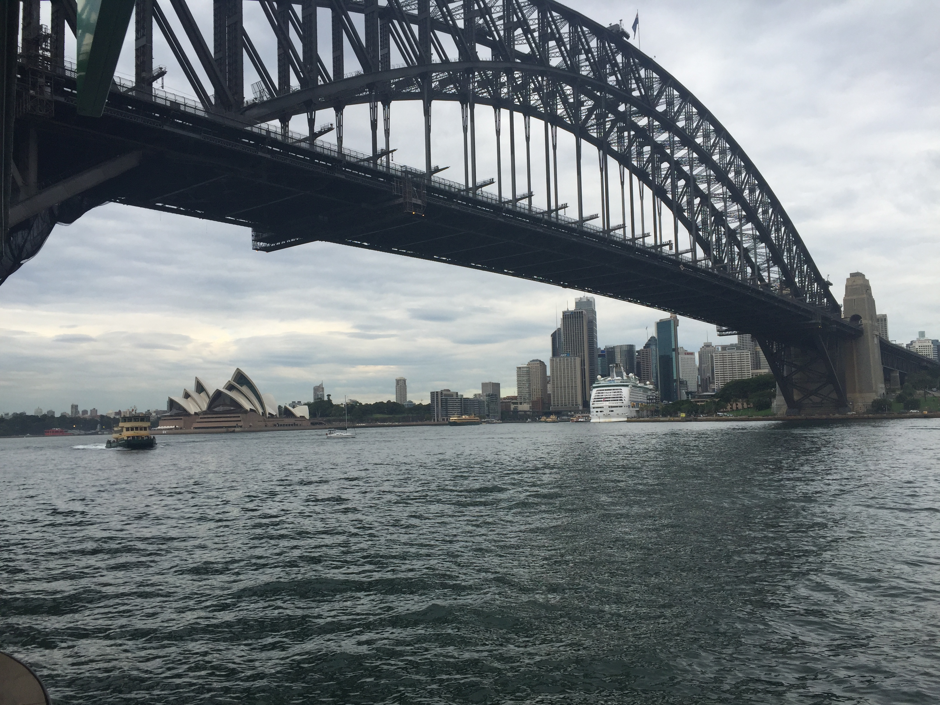 View of Harbour bridge, Sydney